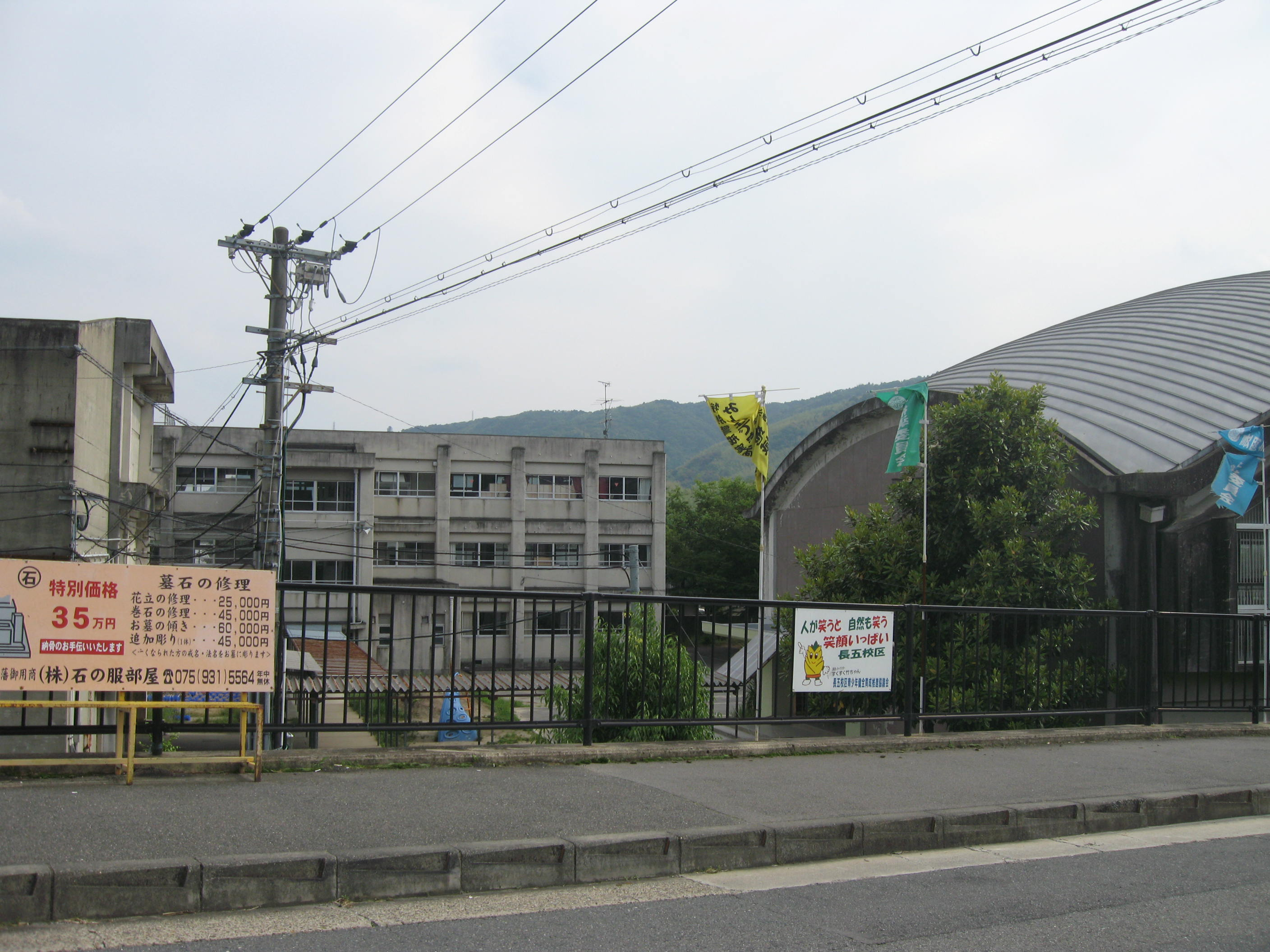 Nagaoka_5th_elementary_school_02